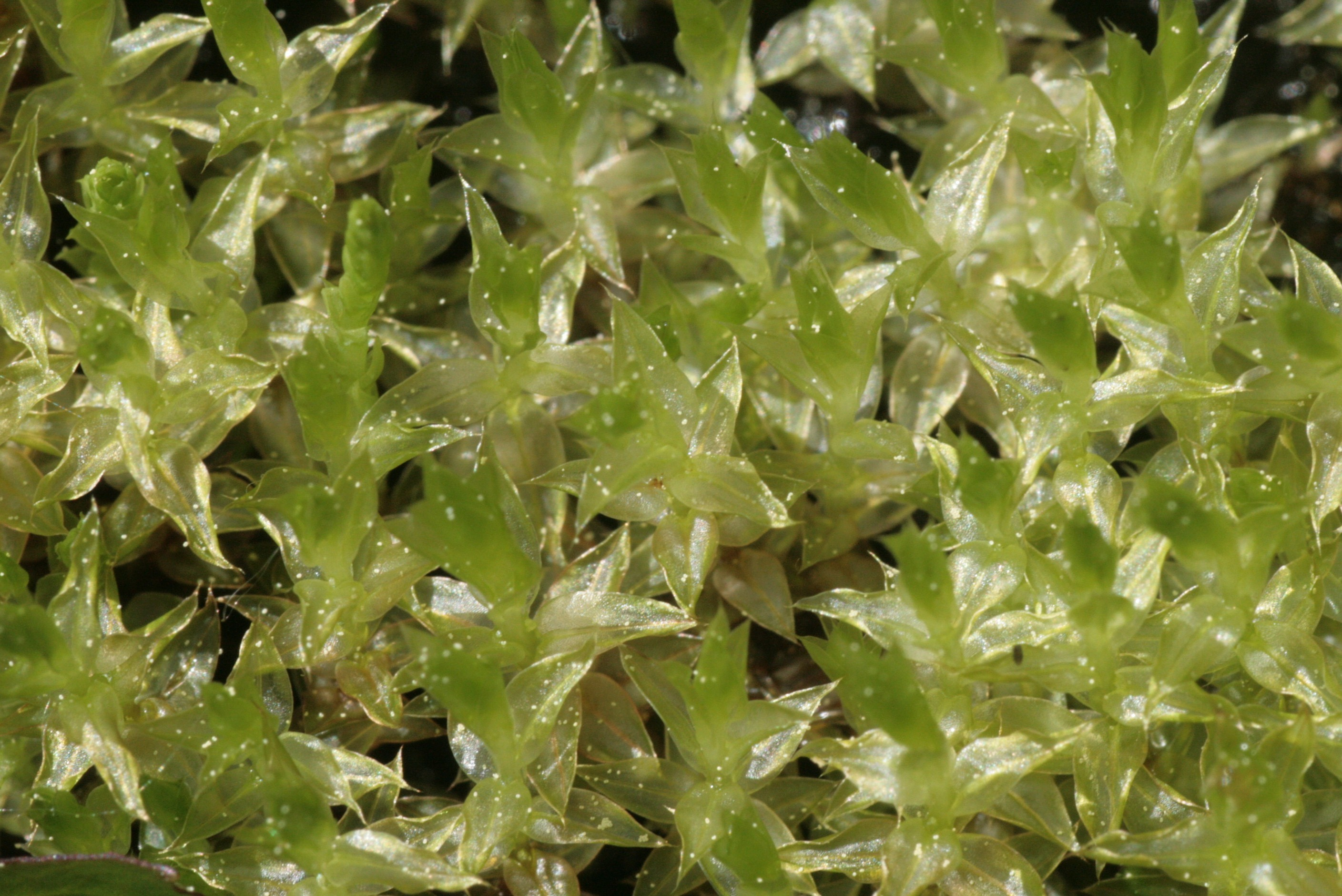 Bryum pseudotriquetrum